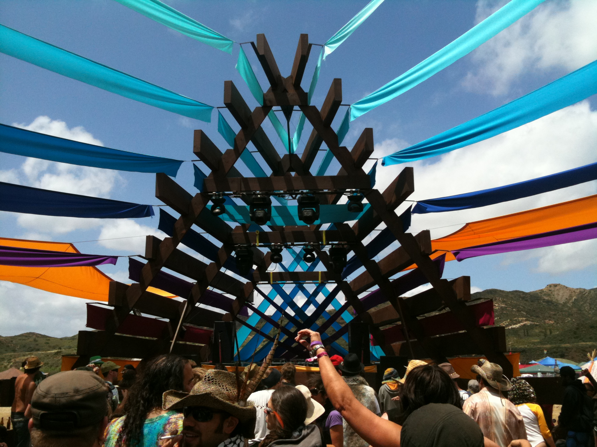 Woogie stage at Lightning in a Bottle 2011